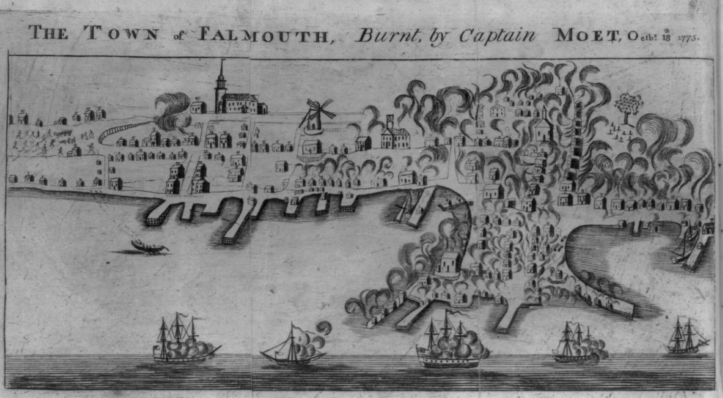 The source image is an engraving from a book first published in 1782. It is captioned: "The town of Falmouth, burnt, by Captain Moet, Octbr. 18th 1775". This image has been cropped to remove borders.